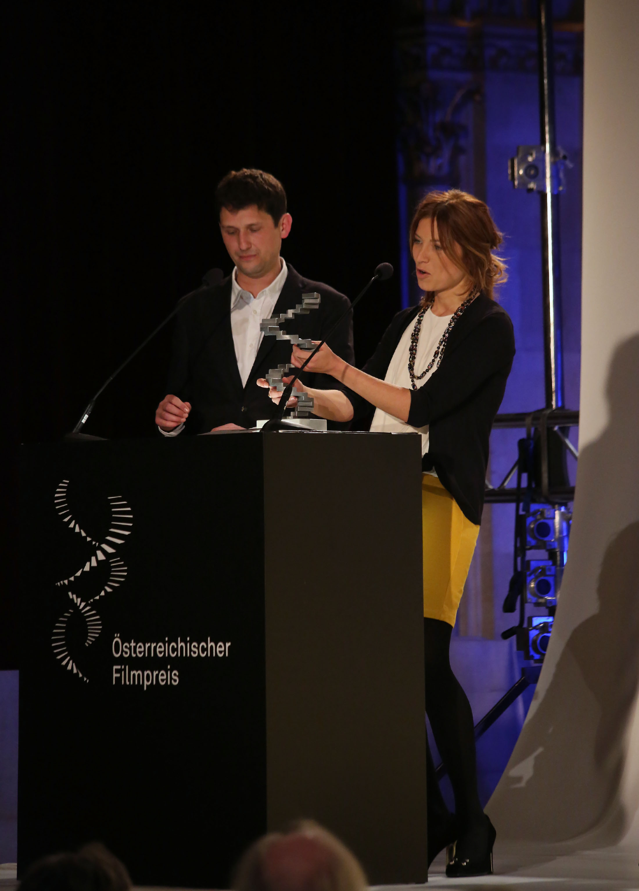 Catalina Molina with presenter Rupert Henning at the Austrian Film Awards 2013 (Vienna).